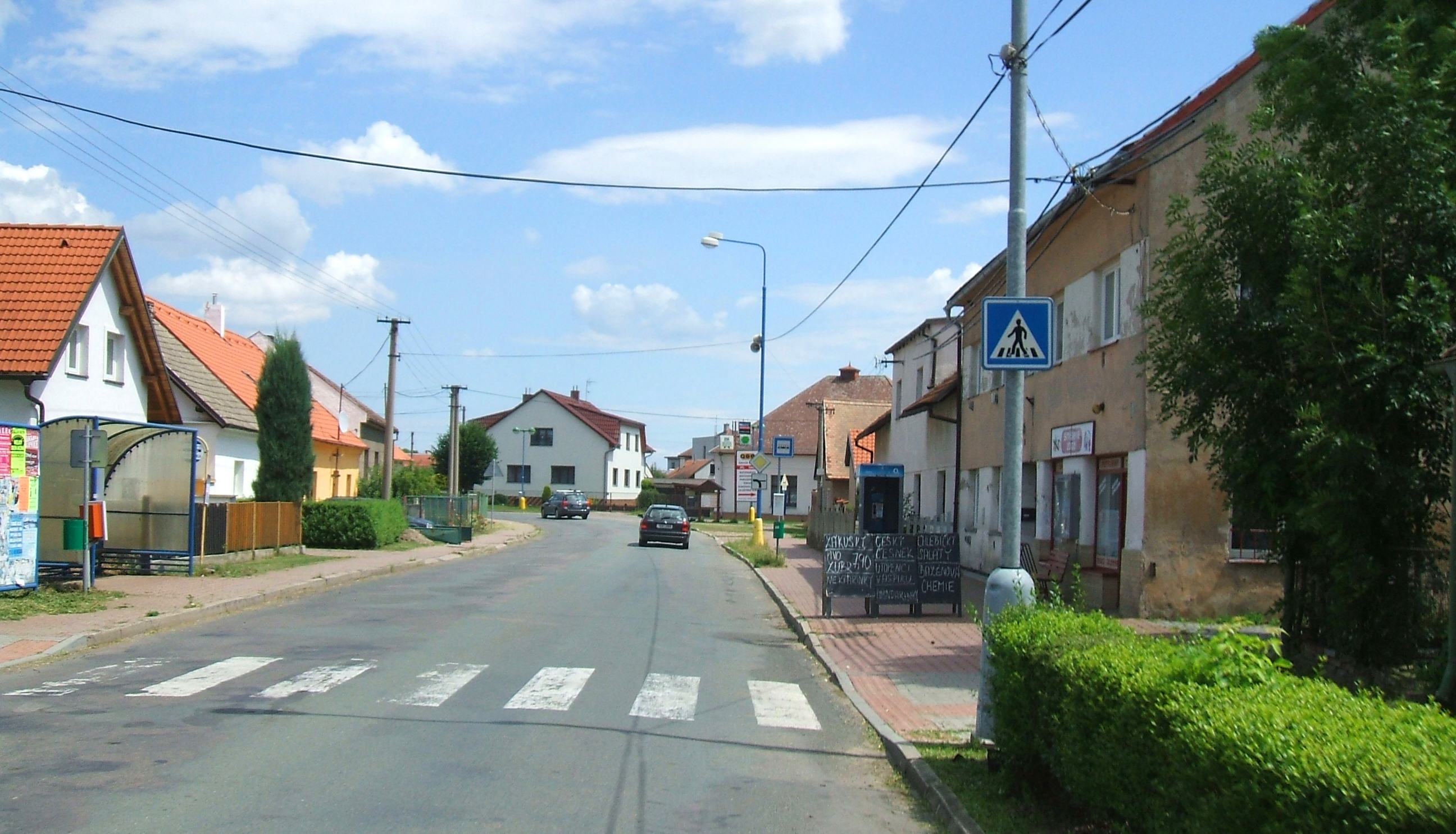 Brozany, part of Staré Hradiště, Pardubice District, Czech Republic. Česky: Brozany, část obce Staré Hradiště, okrese Pardubice